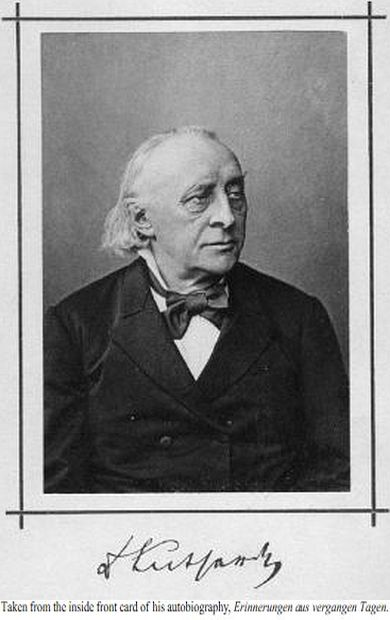 A photo of Christoph Ernst Luthardt, probably circa 1891 as it is from the flyleaf of his autobiography published that year.